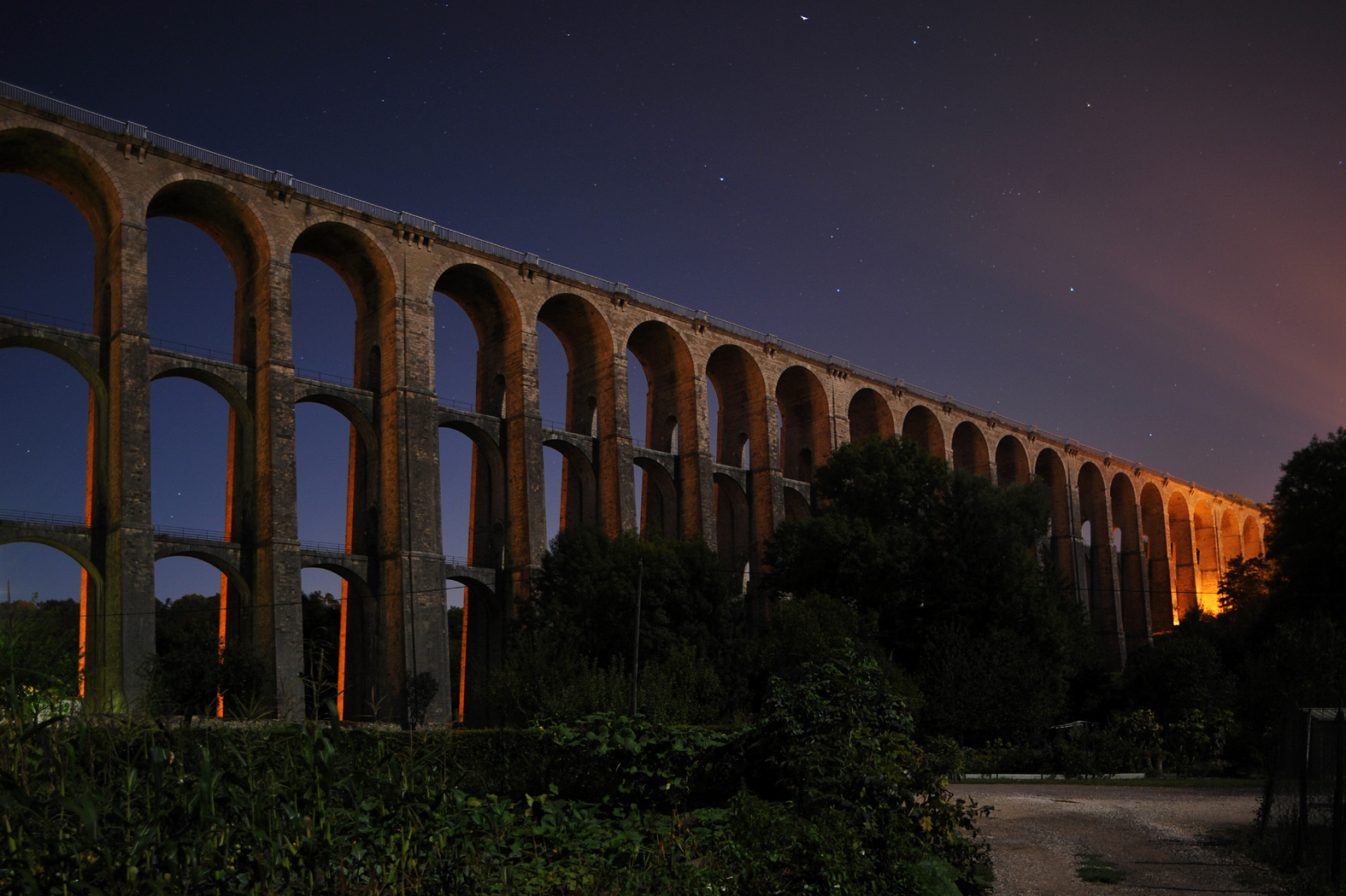 Chaumont viaduct at moonlight; Haute-Marne, France.